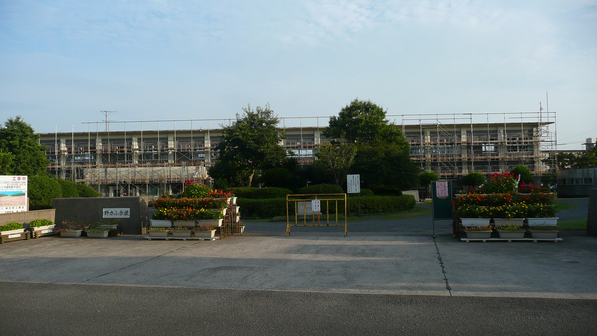 Nogata Elementary School (Osaki Town, Kagoshima, Japan)